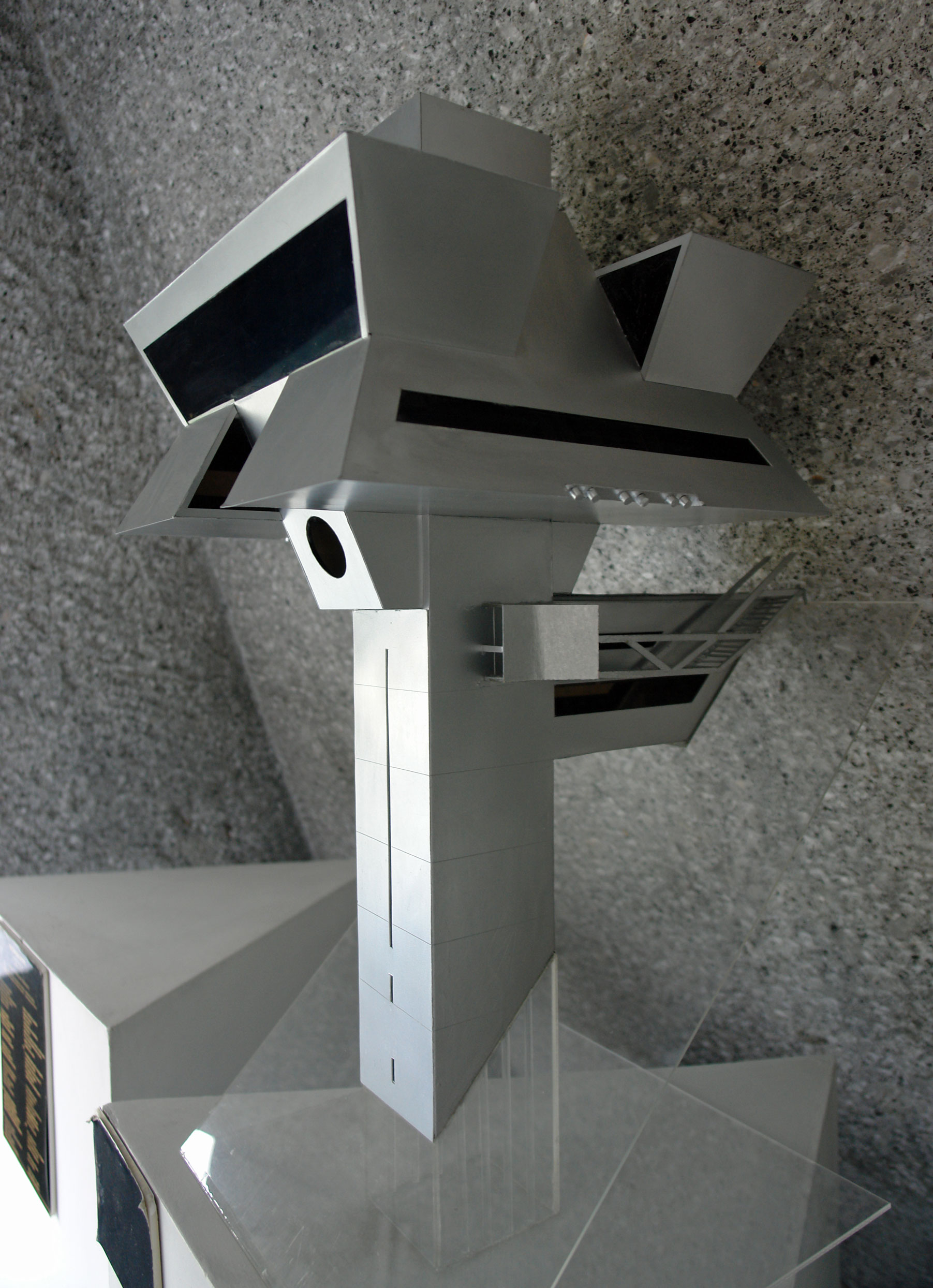 Model of "Praxis", architect Agustin Hernandez Navarro's studio and home in Tecamachalco (Mexico City)